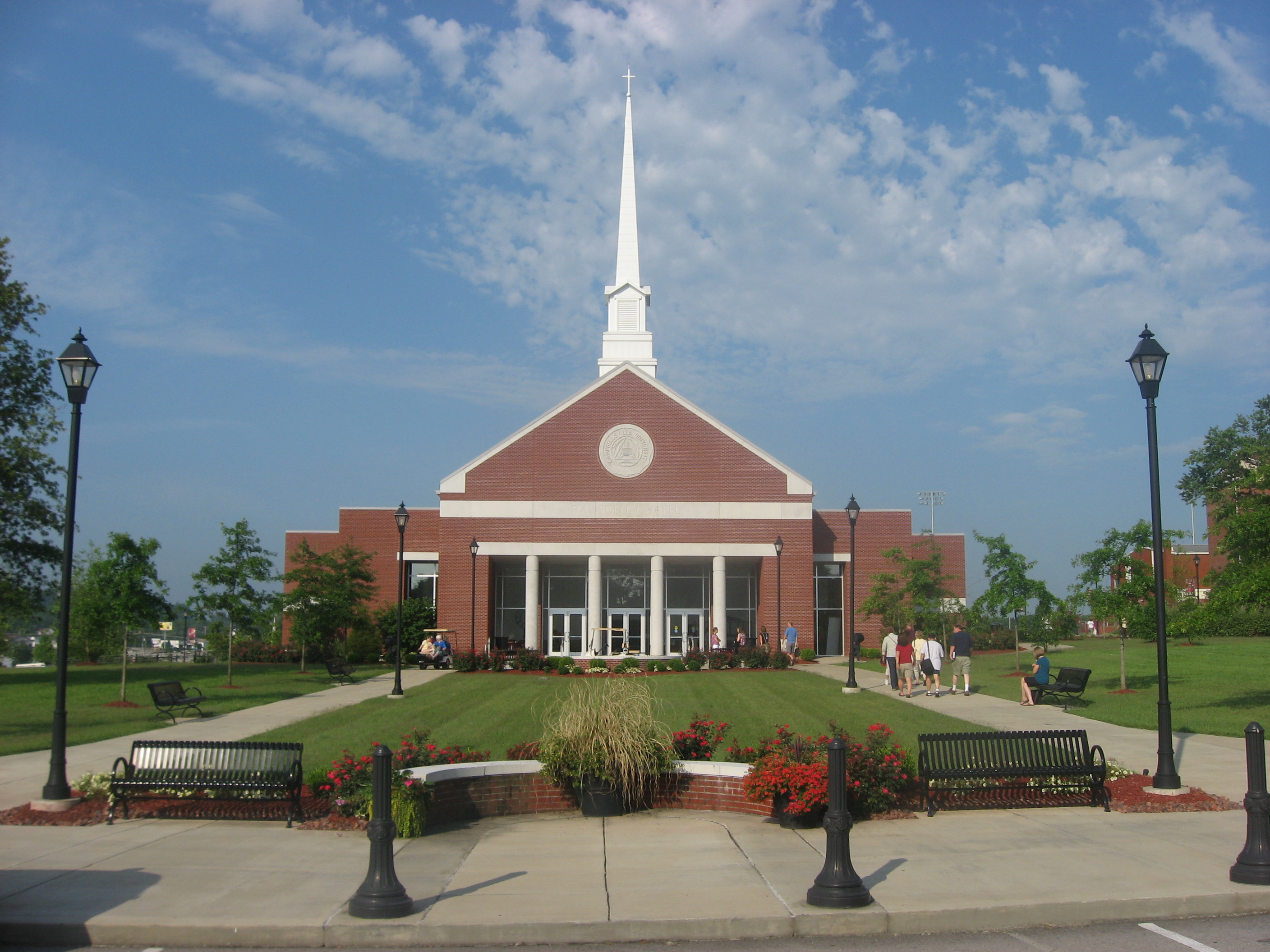 Front of the Ransdell Chapel on the campus of Campbellsville University in Campbellsville, Kentucky, United States. It was built in 2007.